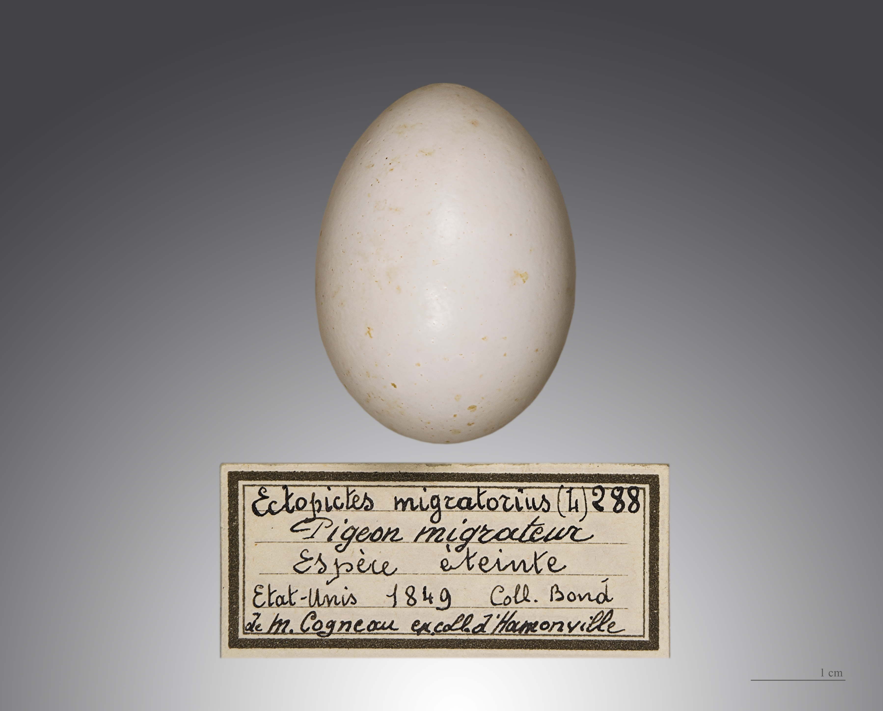 Egg of Passenger Pigeon. Collection of James Bond /Jacques Perrin de Brichambaut. Locality : USA. This photograph is published in Audubon Magazine May-June 2014